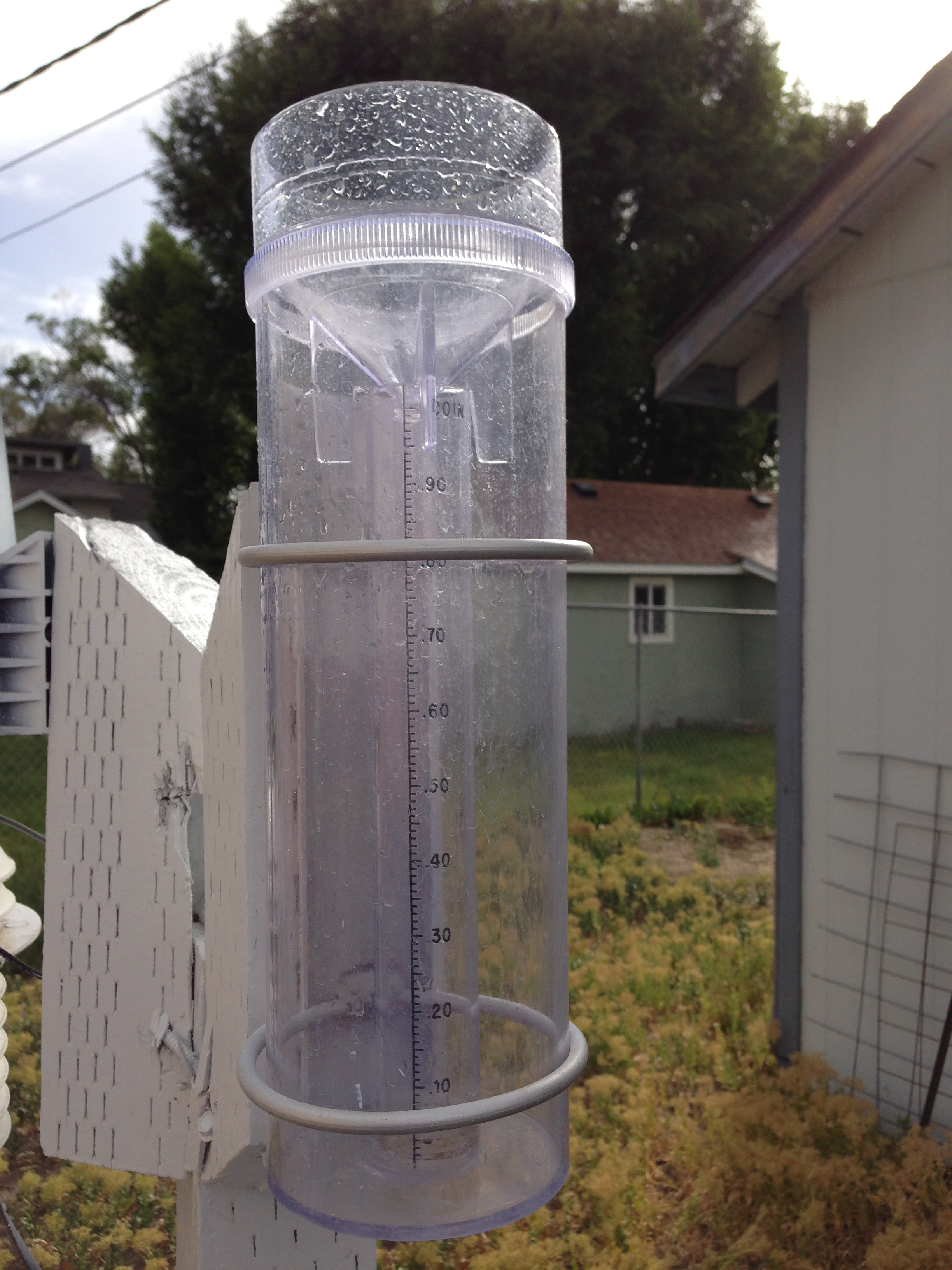 A 4-inch plastic rain gauge, typical of those used by the CoCoRaHS program